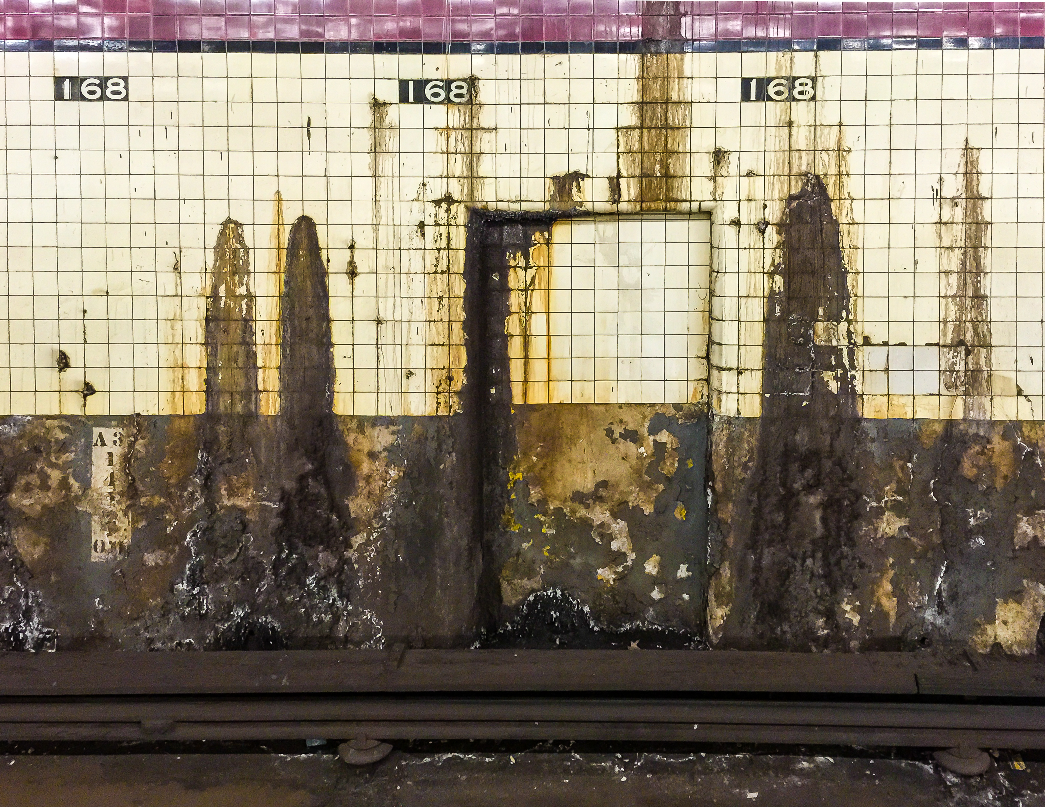 February 12, 2016 New York, NY